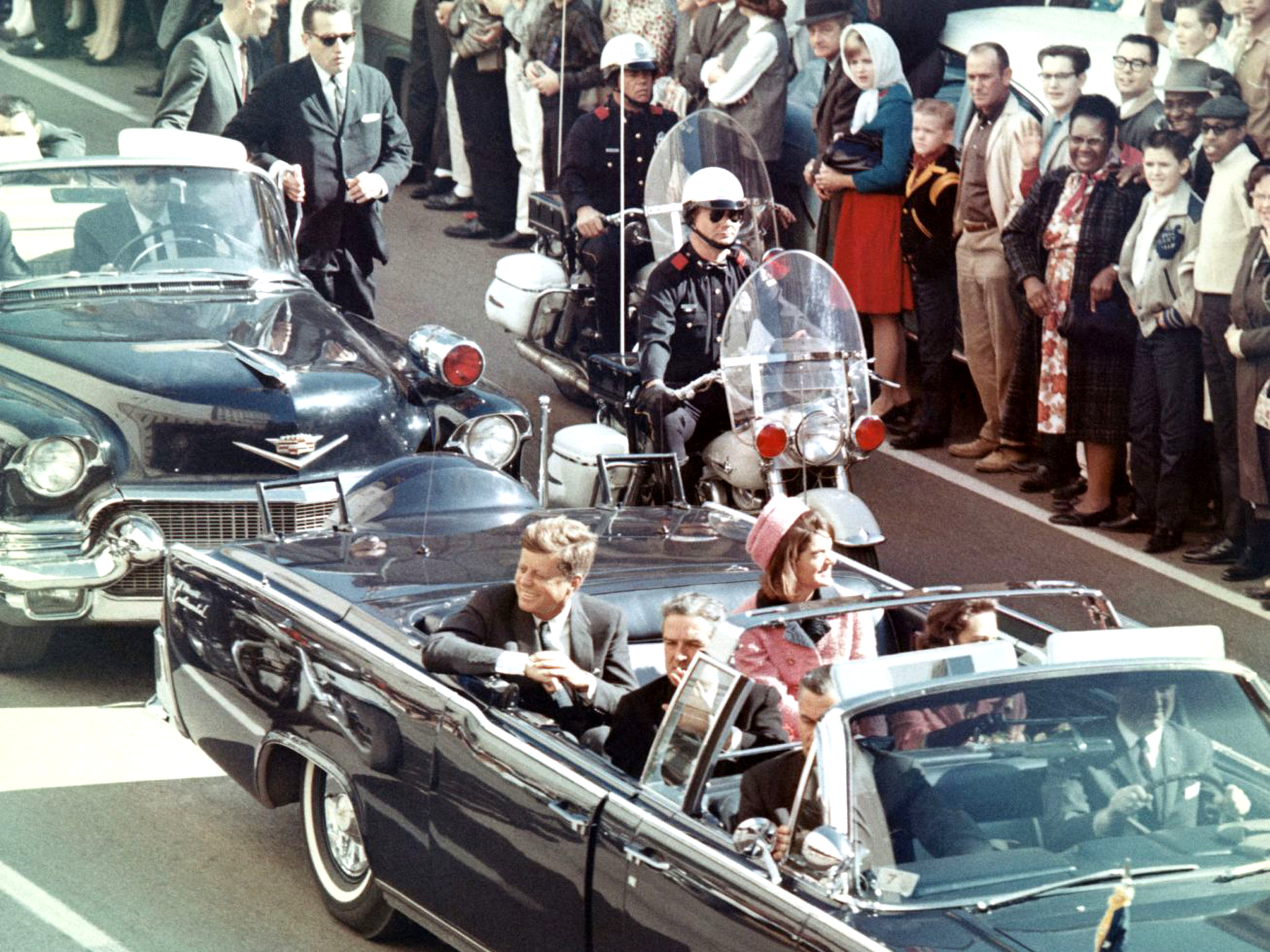 Picture of President Kennedy in the limousine in Dallas, Texas, on Main Street, minutes before the assassination. Also in the presidential limousine are Jackie Kennedy, Texas Governor John Connally, and his wife, Nellie.